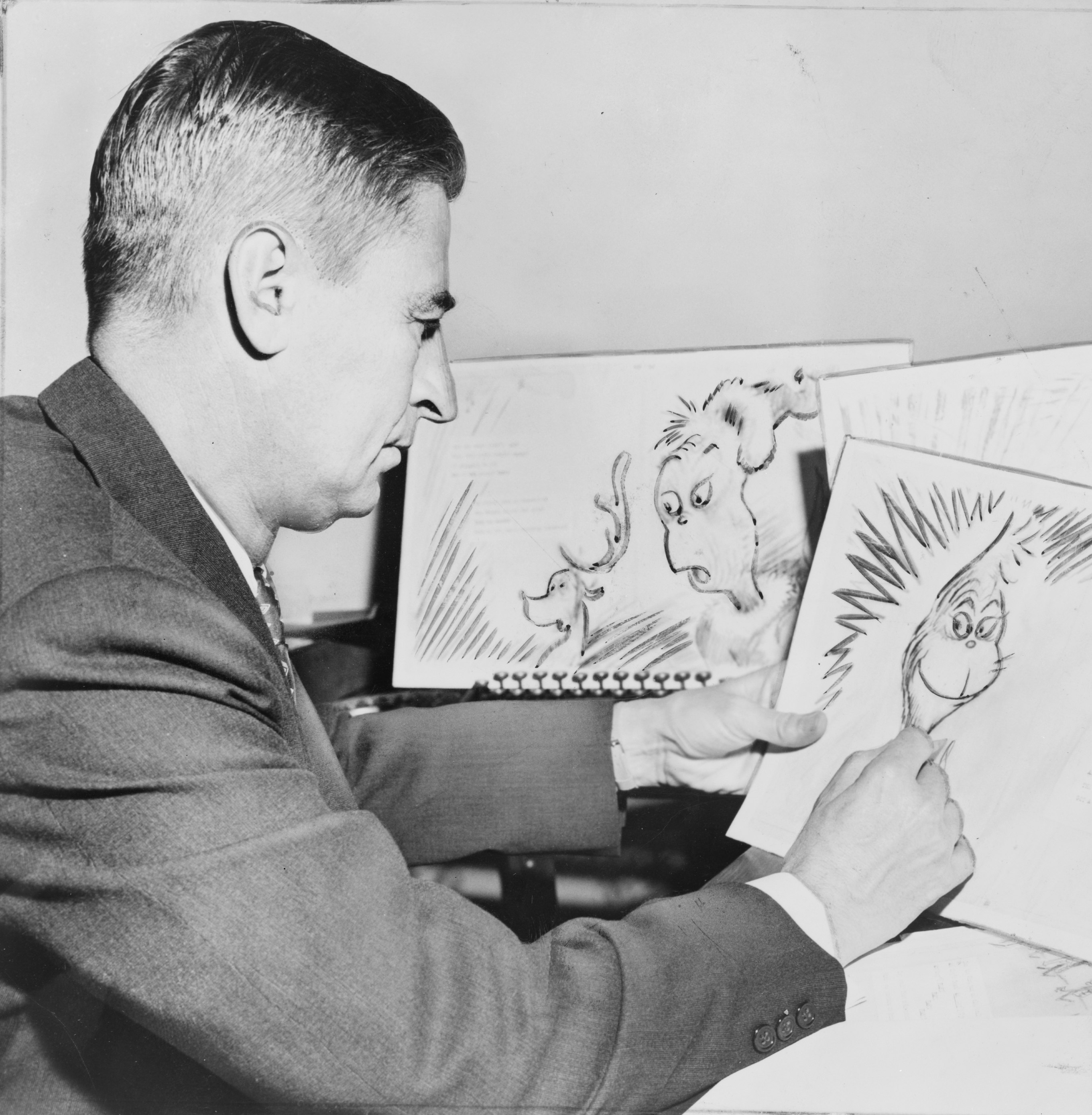 Ted Geisel, American writer and cartoonist, at work on a drawing of the grinch for "How the Grinch Stole Christmas"